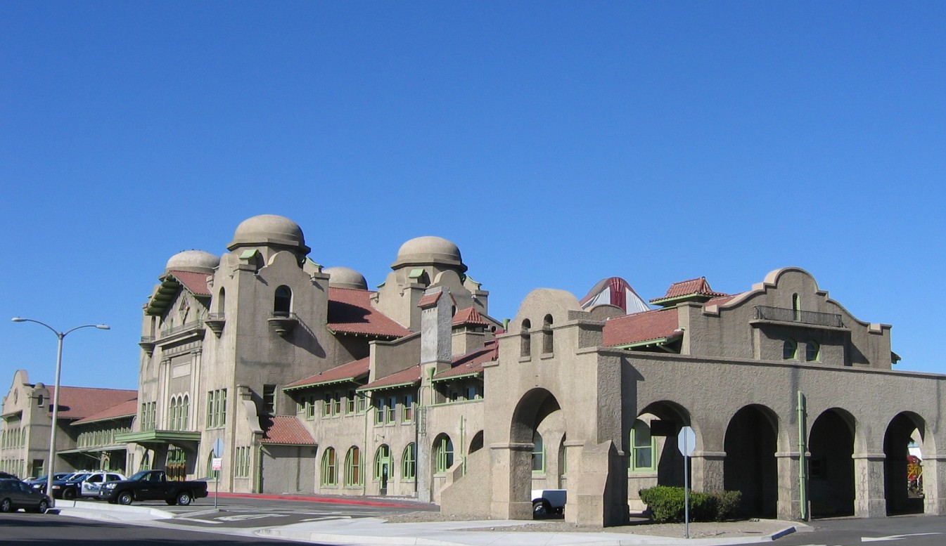 Santa Fe station and Harvey House in San Bernardino, CA, built in 1918 and recently restored. Now used for county offices, Metrolink commuter trains to Los Angeles, and Amtrak. However, a sign on the door says, "Amtrak trains stop here, but no Amtrak personal staff this station." Of all the former and current train stations in California, this one is possibly the most impressive looking of the bunch.